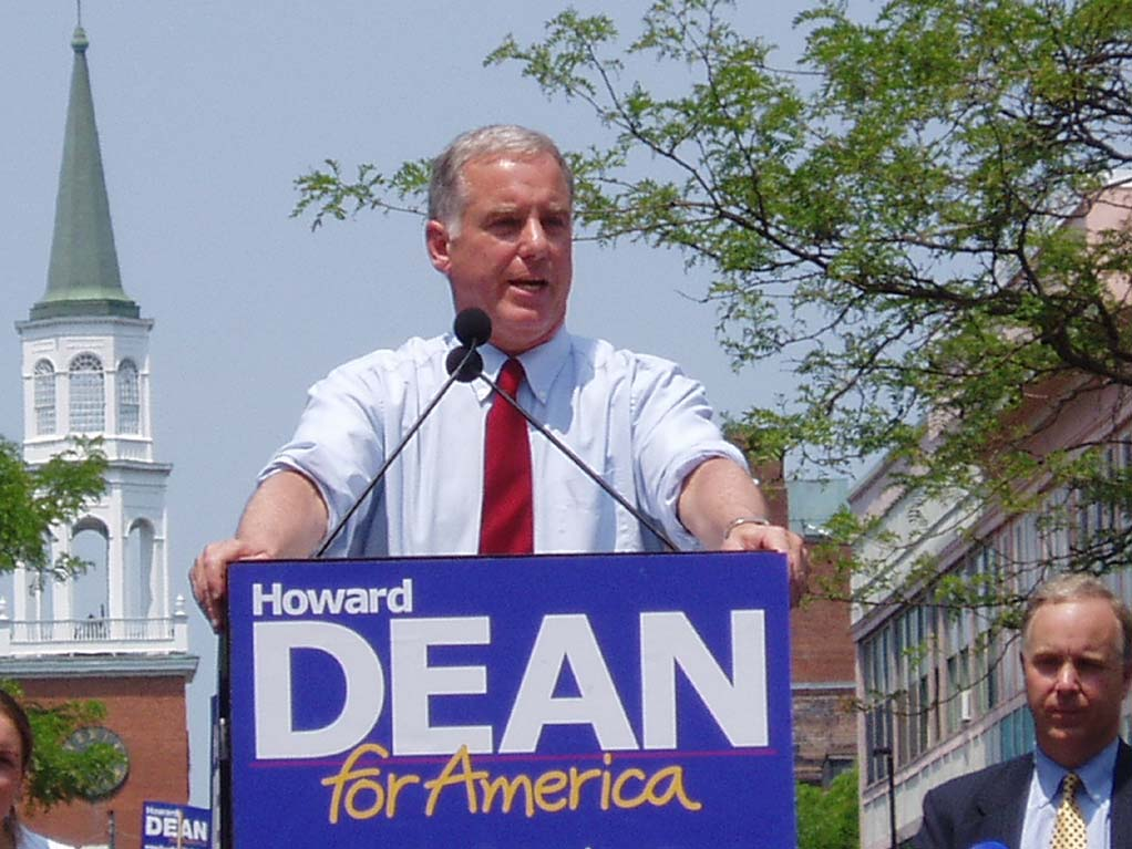 Photo from Dean's Declaration of Candidacy speech Burlington, VT 23-June-2003. This was one of the best Political Speeches I have ever witnessed, and helped solidify him as a force in Democratic politicsHoward Dean Declaration of Candidacy